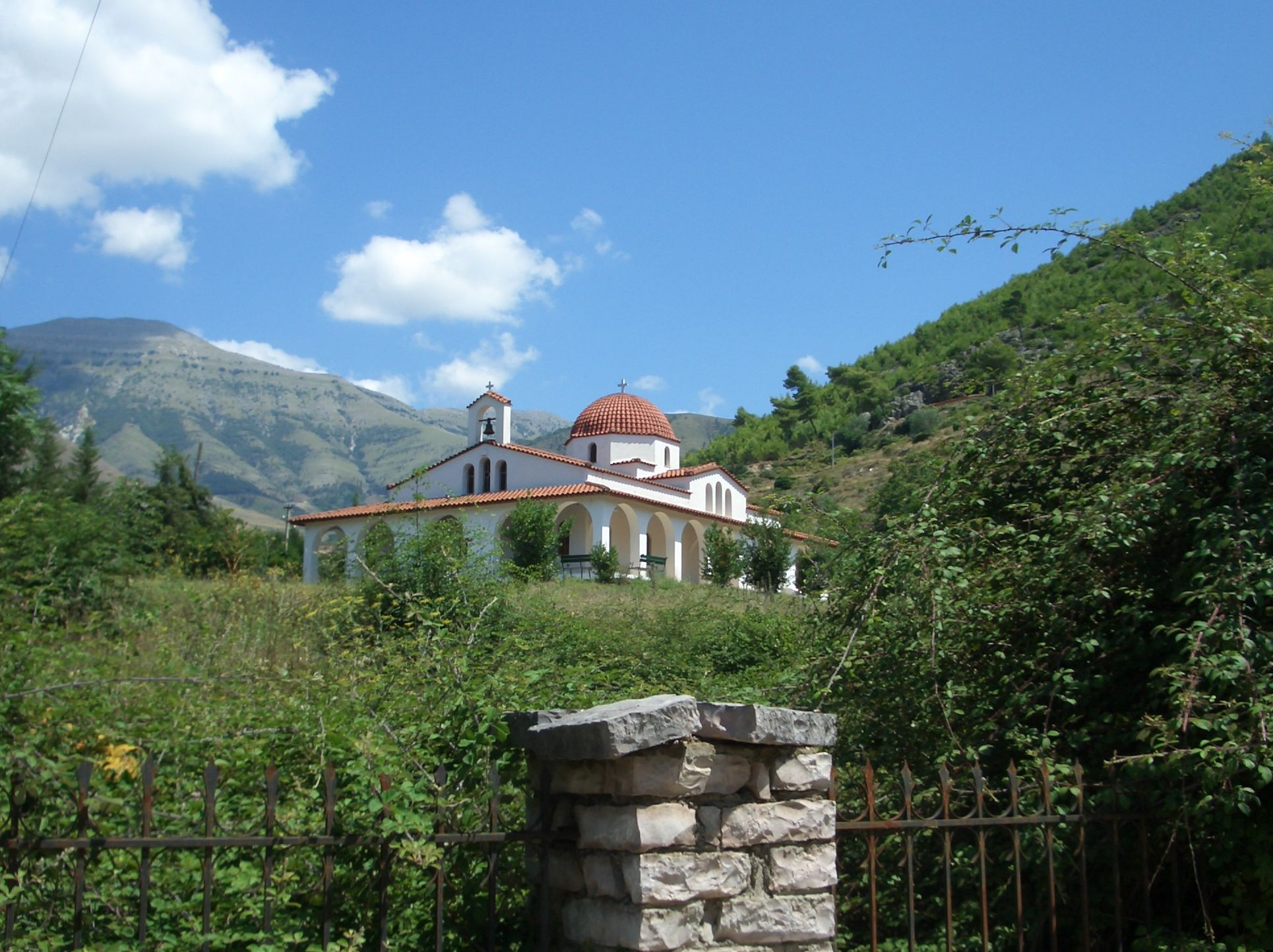 orthodox church in Delvina, Albania